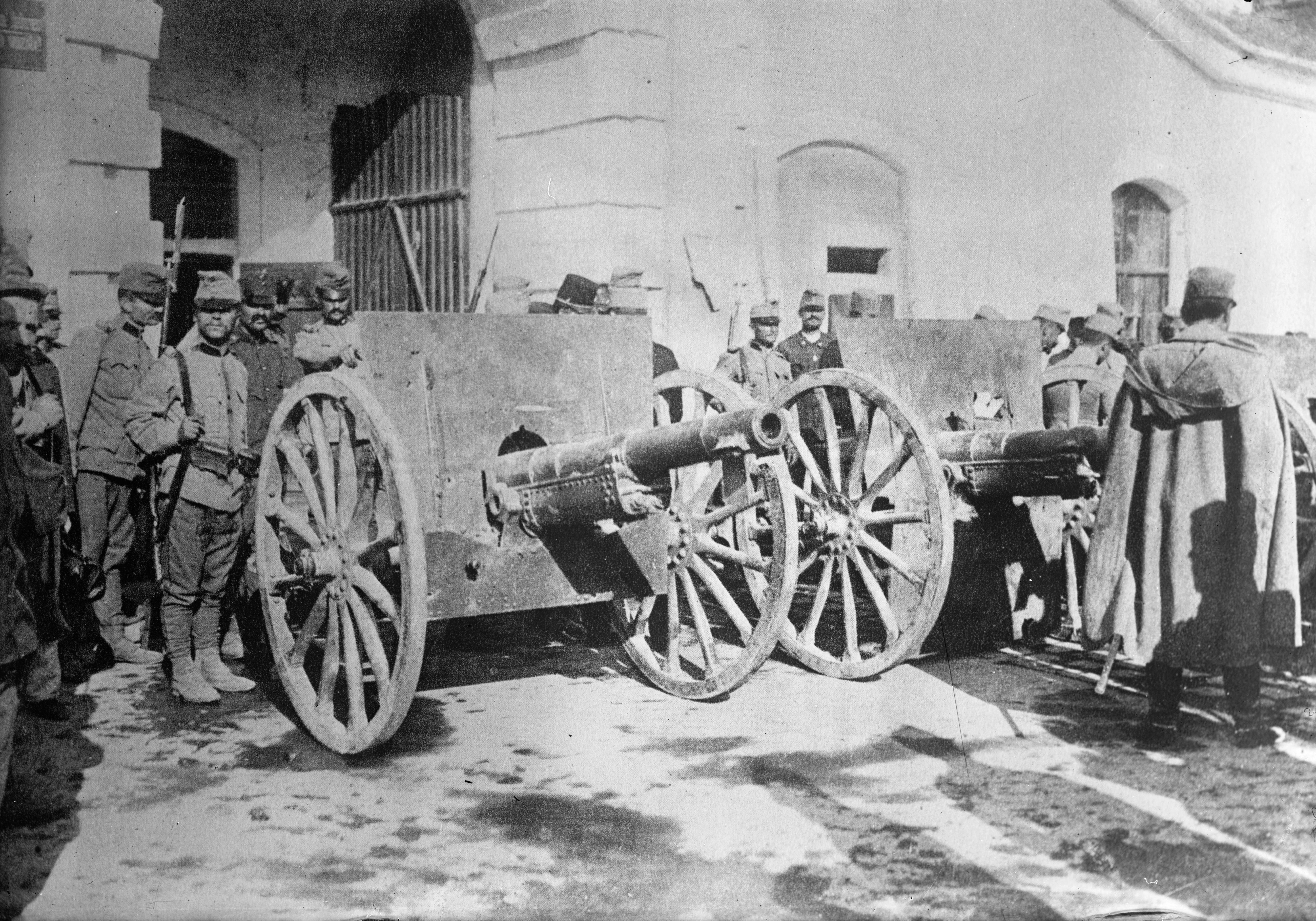 Serbian guns taken by Austrians at an unknown location. The guns are are Canon de 75 modele 1914 Schneider.